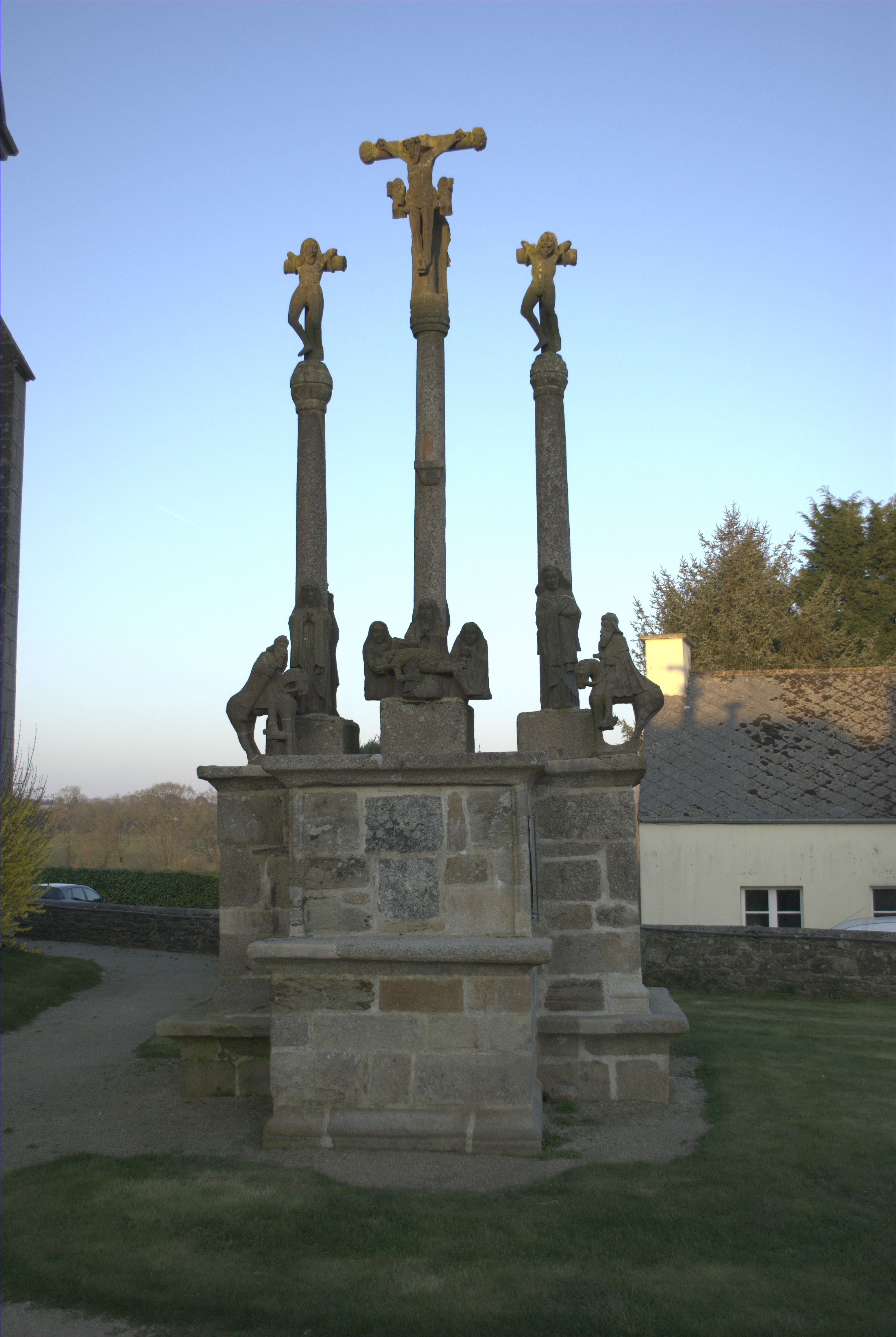 Cross of Senven-Léhart(France).